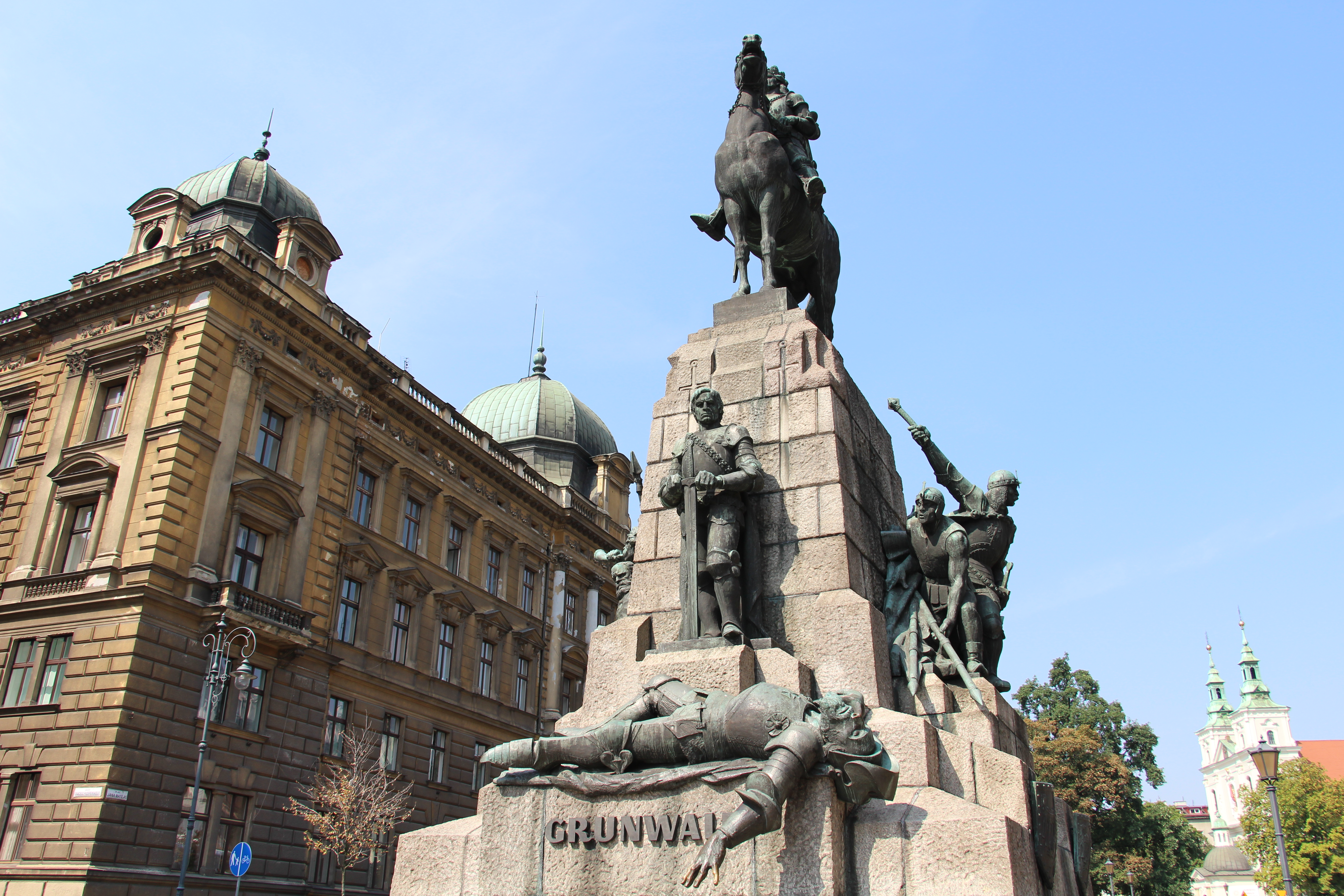 Plac Jana Matejki Grunwald Monument. Arch. Antoni Wiwulski and Francisz Black 1910. Demolished in 1939 by the Germans, it was reconstructed. Arch. Marian Konieczny 1976